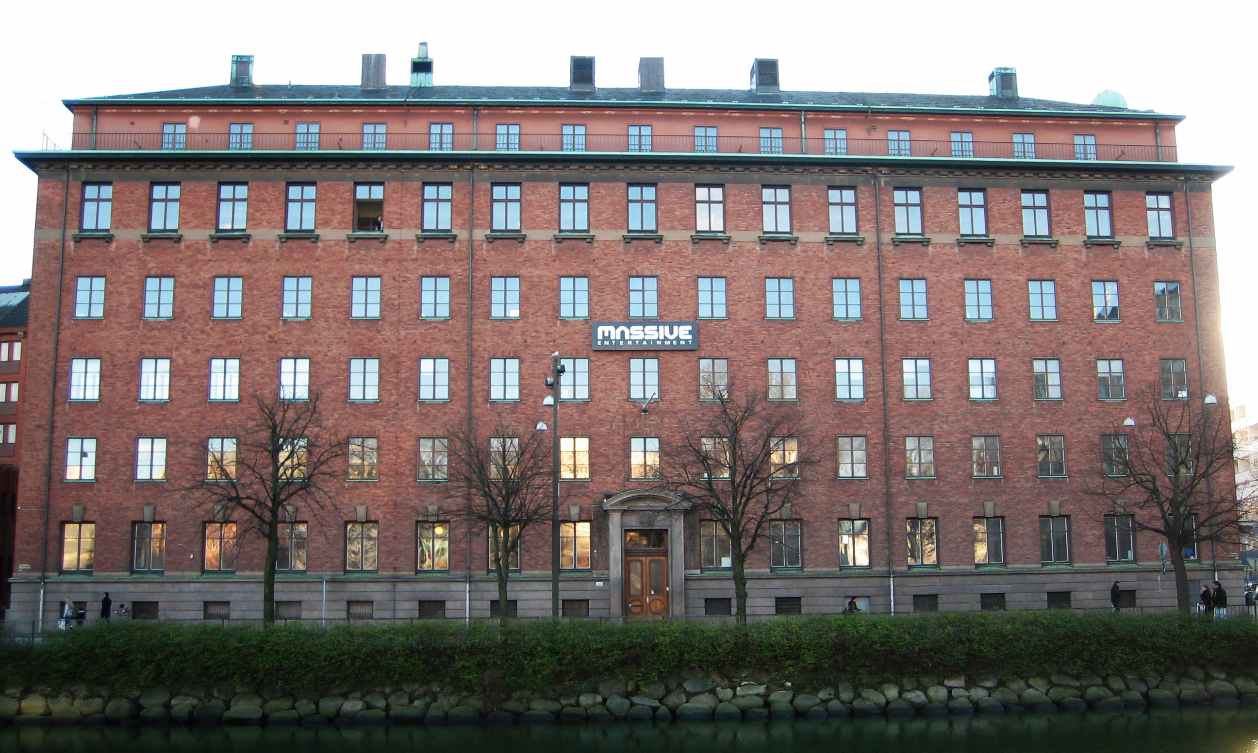 Computer game developer Massive Entertainment's main office in Malmö, Sweden. Former Televerket's building. Photo by the uploader.